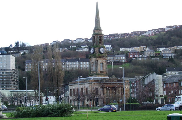 Port Glasgow View of the Town Building and war memorial from Coronation park. The steep slope in the background is typical Port Glasgow.